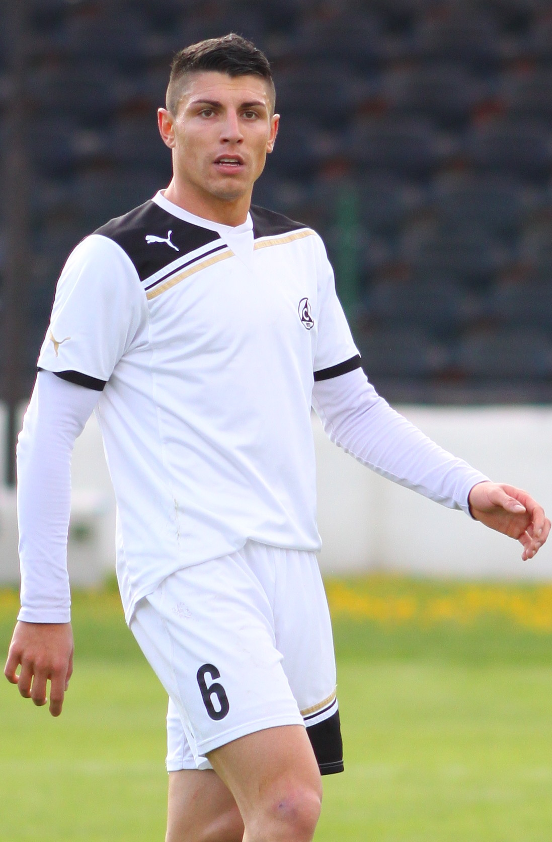 Daniel Zlatkov (Bulgarian: Даниел Златков) (born 6 March 1989) is a football defender from Bulgaria currently playing for Slavia Sofia.